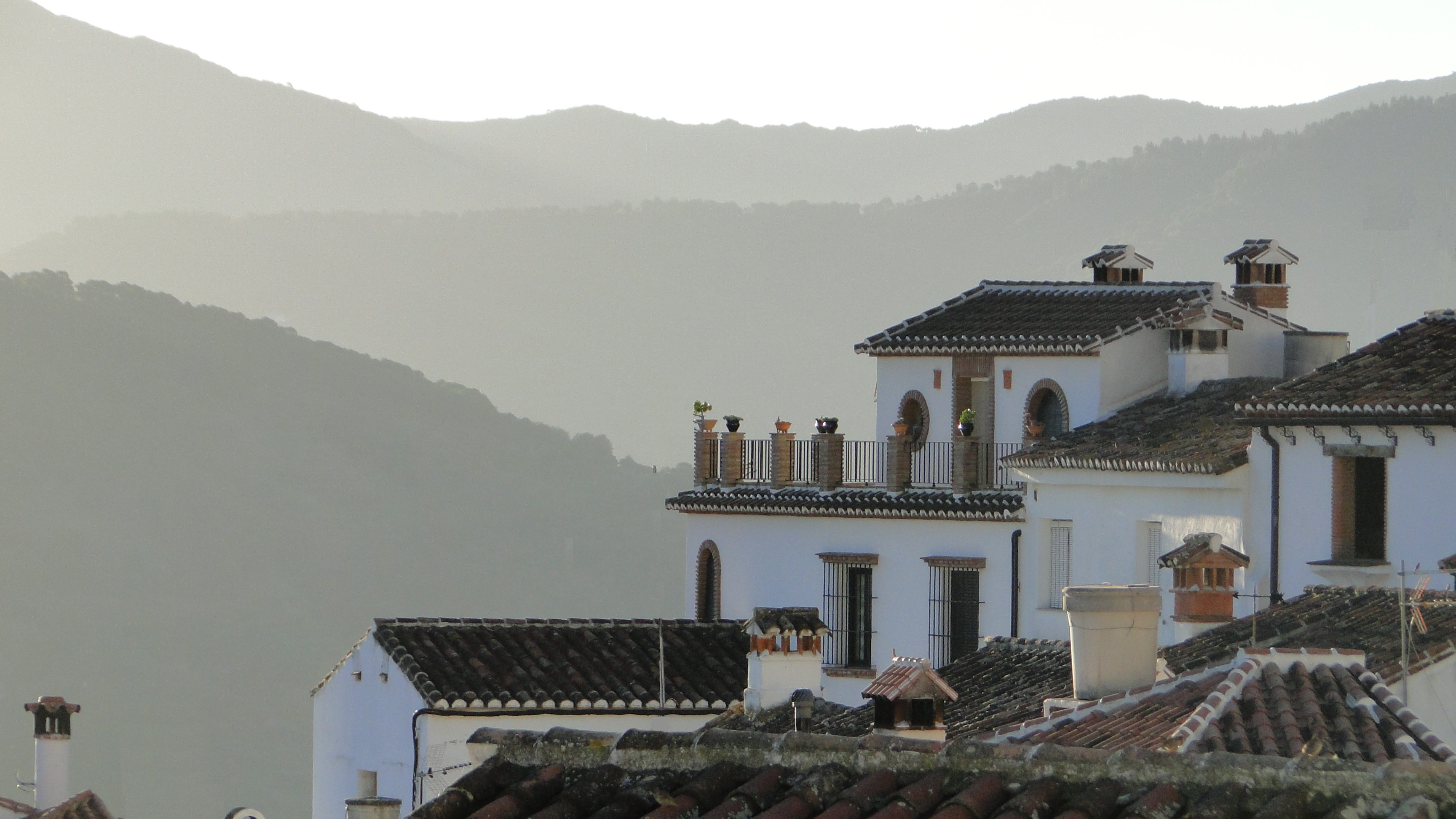 Benalauría (Málaga) - Valley of the Genal